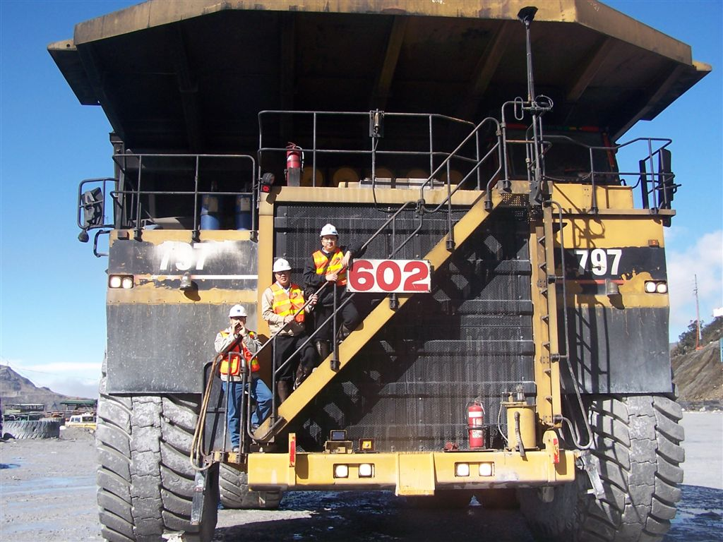 Front view of the Caterpillar 797 haul truck.